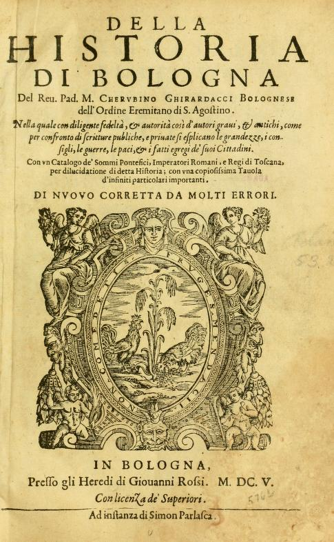 Title page of Della historia di Bologna [parte prima] (The History of Bologna, Part One), by Cherubino Ghirardacci